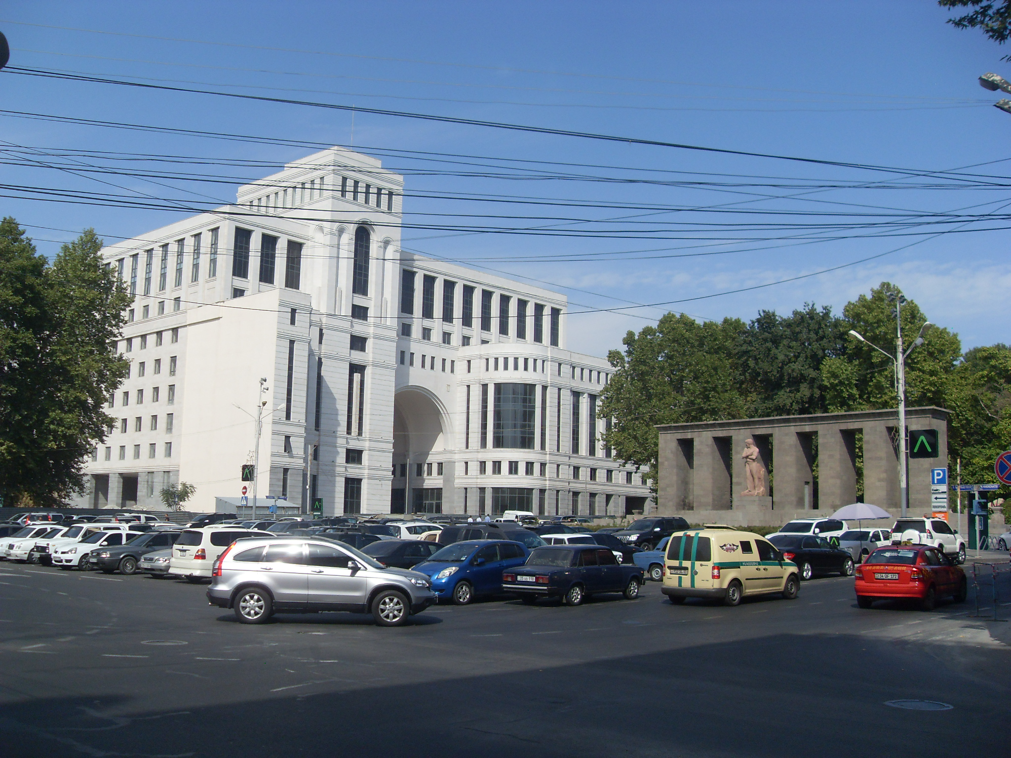 Stepan Shahumyan Monument, Yerevan, sculp. S. Merkurov, archit. I. Zholtovsky, 1931 6/101